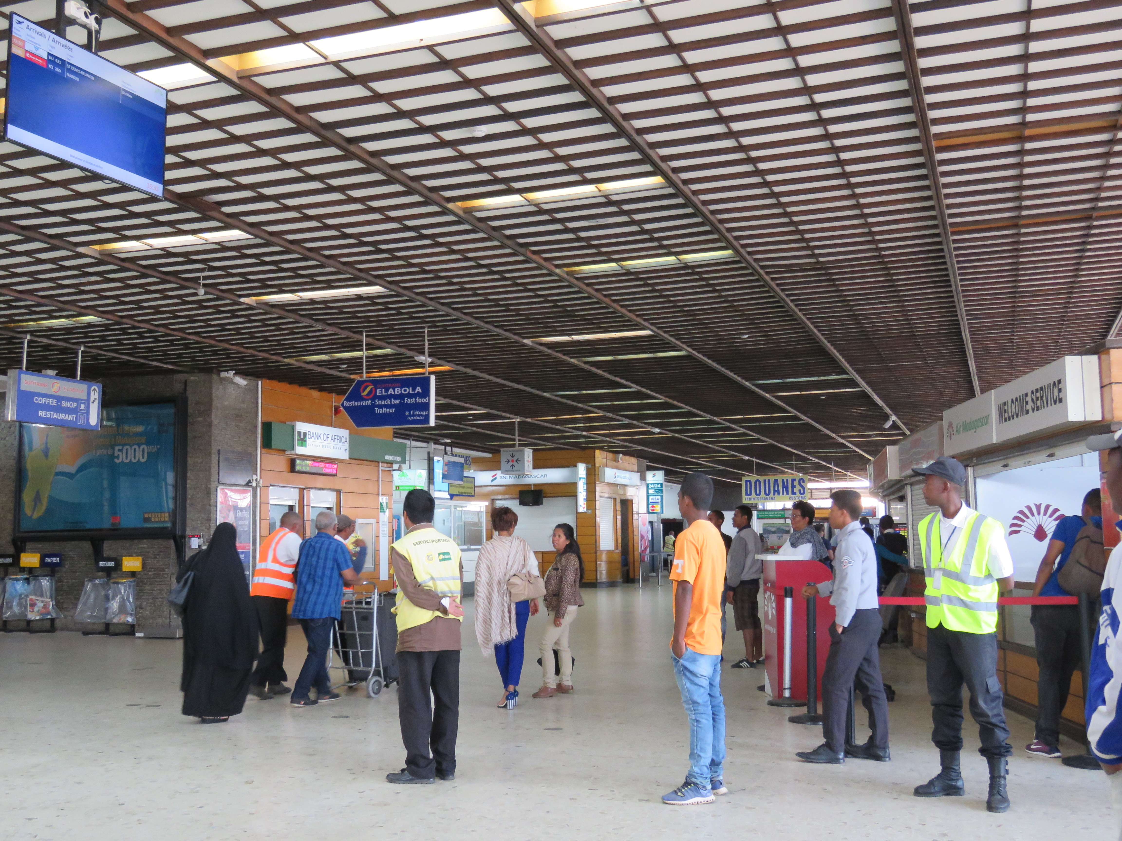 This is an image with the theme "Africa on the Move or Transport" from: Madagascar